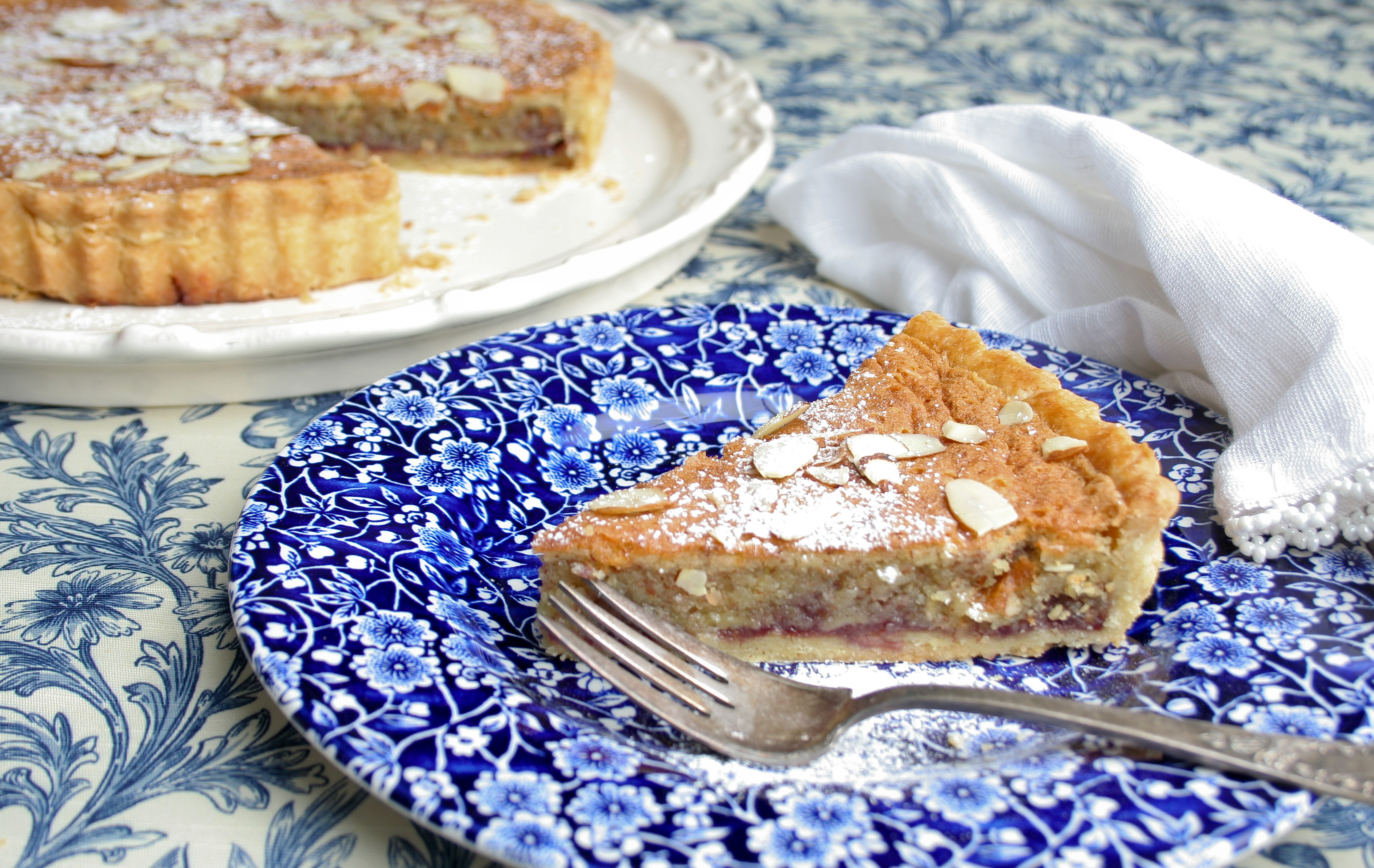 A slice of a bakewell tart served on a plate.